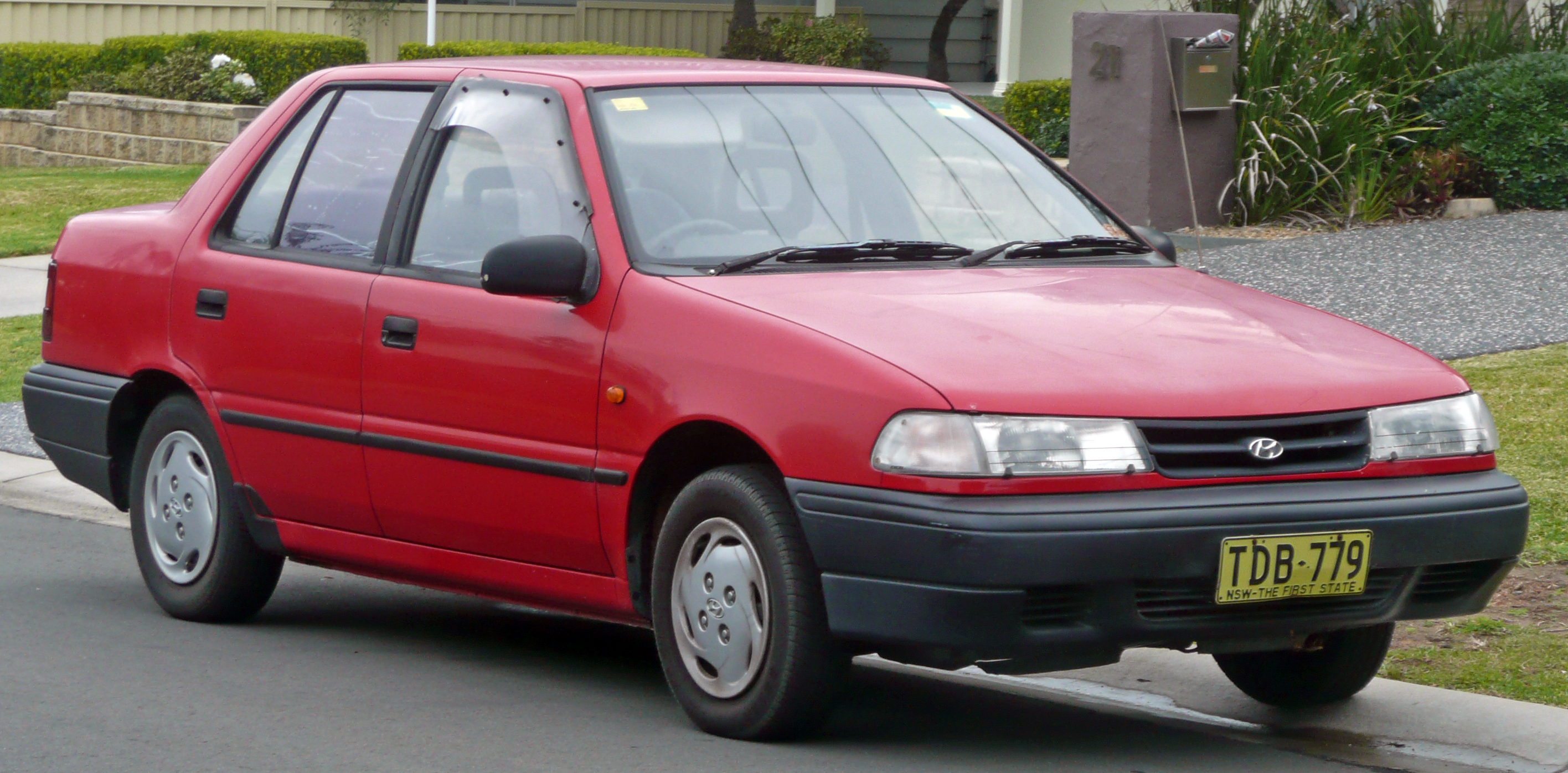 1994 Hyundai Excel (X2) LS sedan. Photographed in Cronulla, New South Wales, Australia.